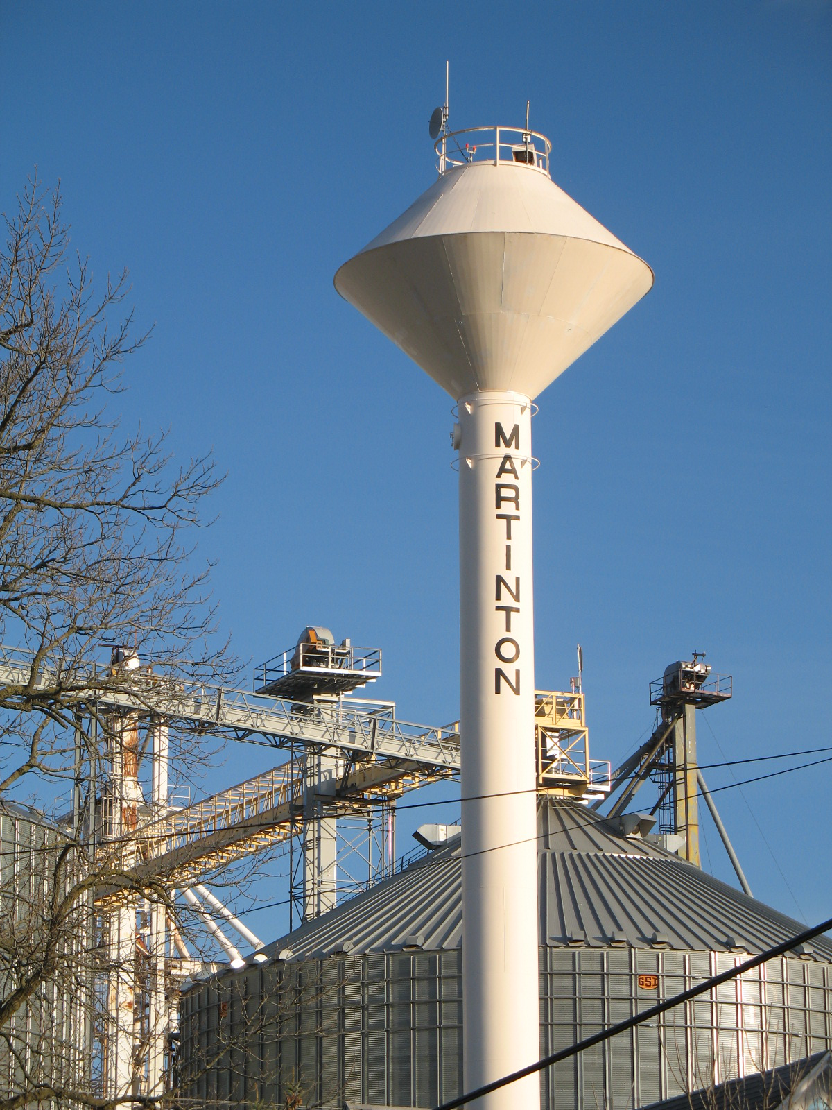 Water tower in Martinton, Illinois with grain elevator in the background